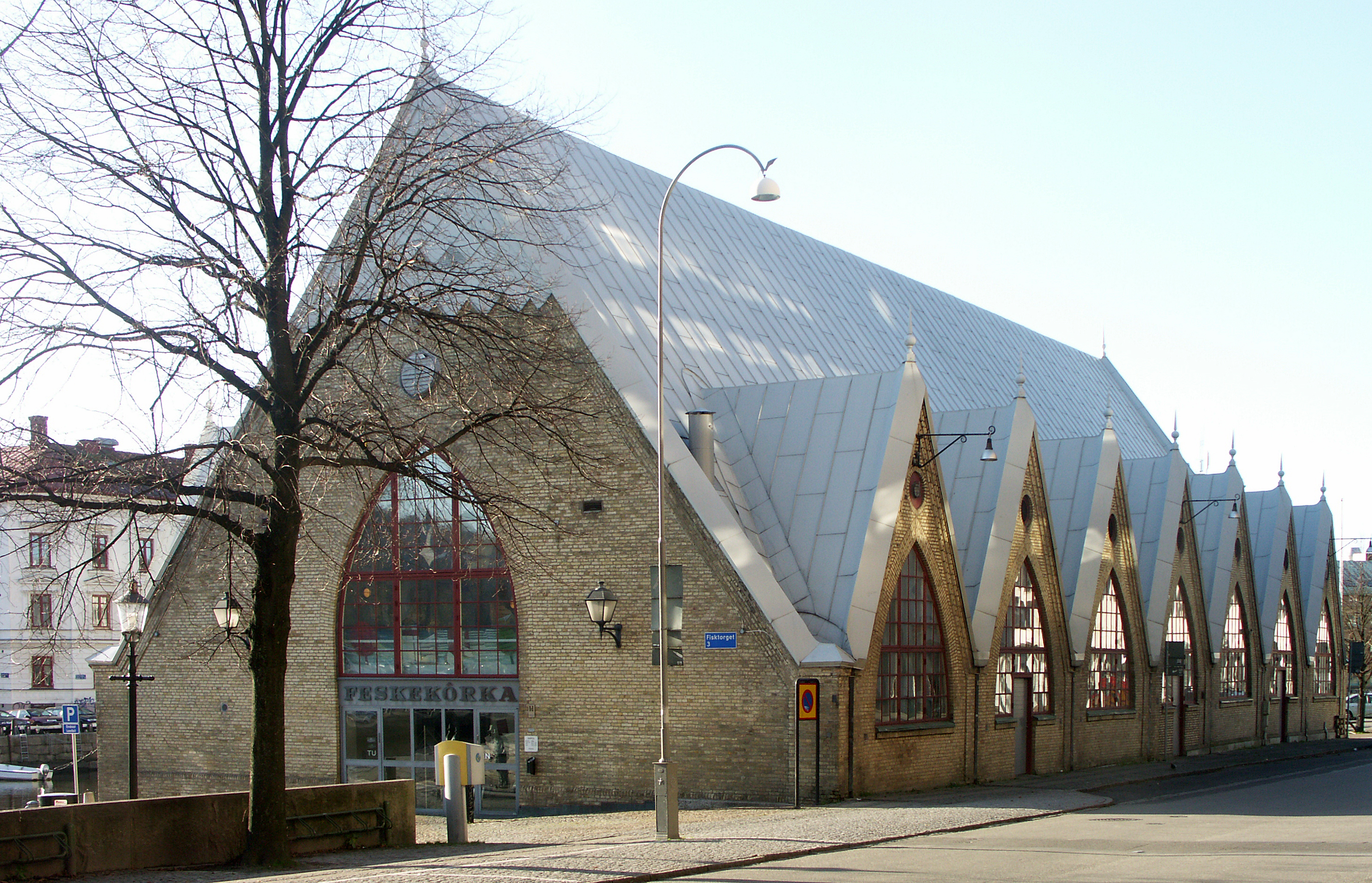 Swedish fish market Feskekörka ("Fish Church") in Gothenburg